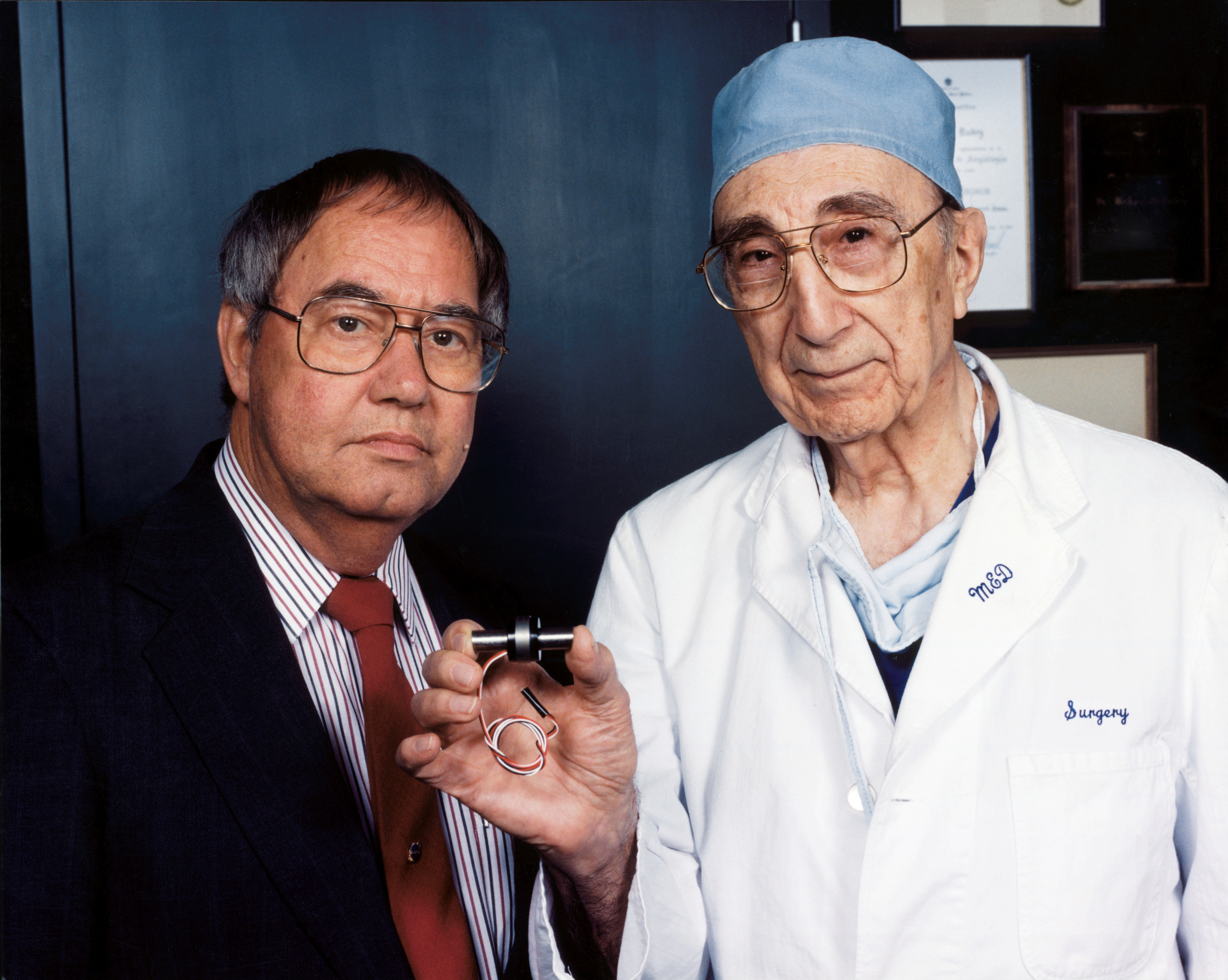 JSC2004-E-16052 --- Dr. Michael DeBakey, at right in this file photo, holds the MicroMed-DeBakey VAD (ventricular assist device), a tiny heart-assist pump. With him is one of his heart transplant patients, David Saucier, a NASA Johnson Space Center engineer. They helped develop the idea of using Shuttle fuel pump technology to design the device. It has been implanted into more than 200 patients, and recently was given FDA approval for use for children 5 to 16. It can be a "bridge" to transplant, helping keep patients alive until a donor organ is available.